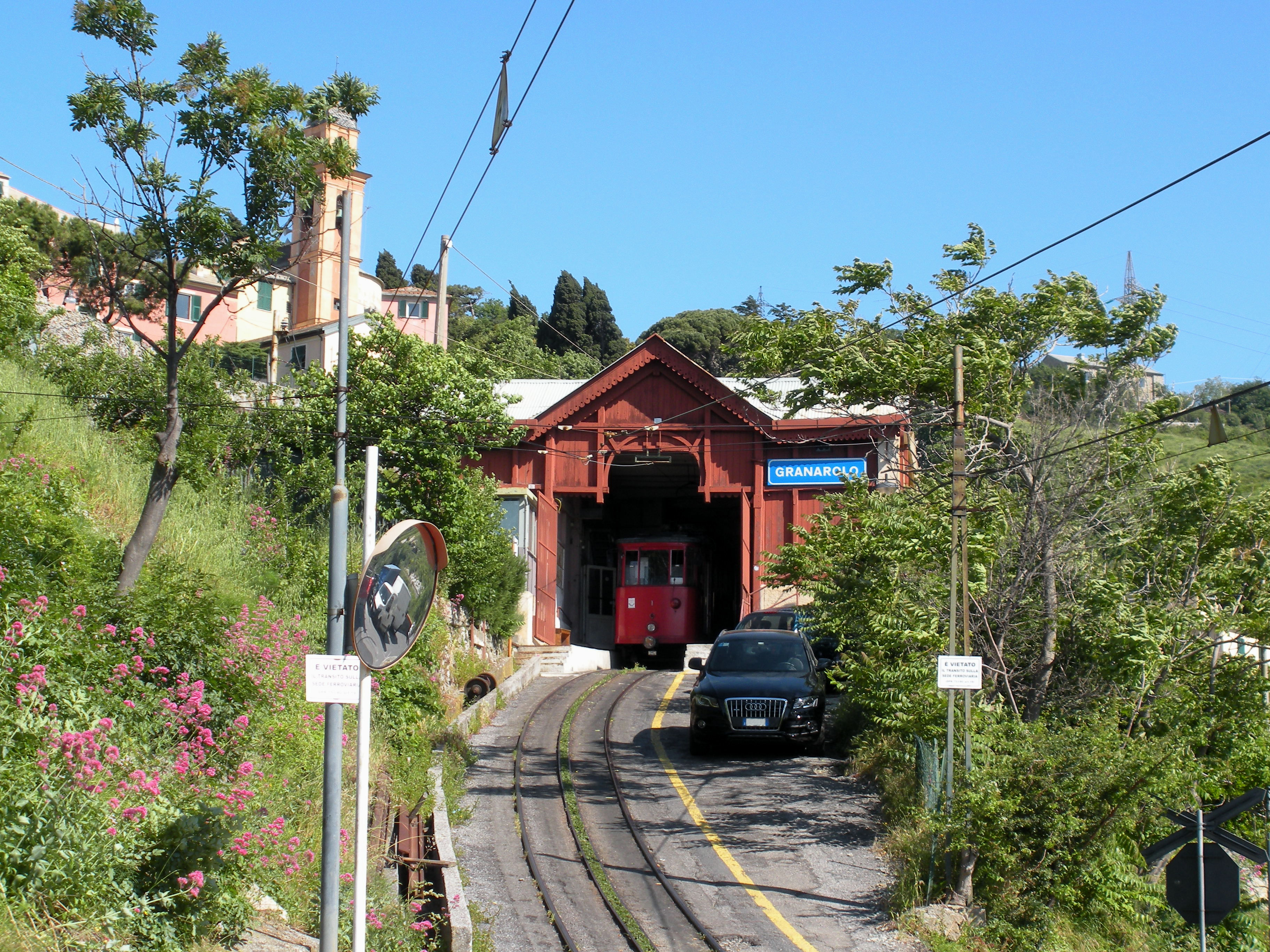 Genoa, the top station of Granarolo cog railway